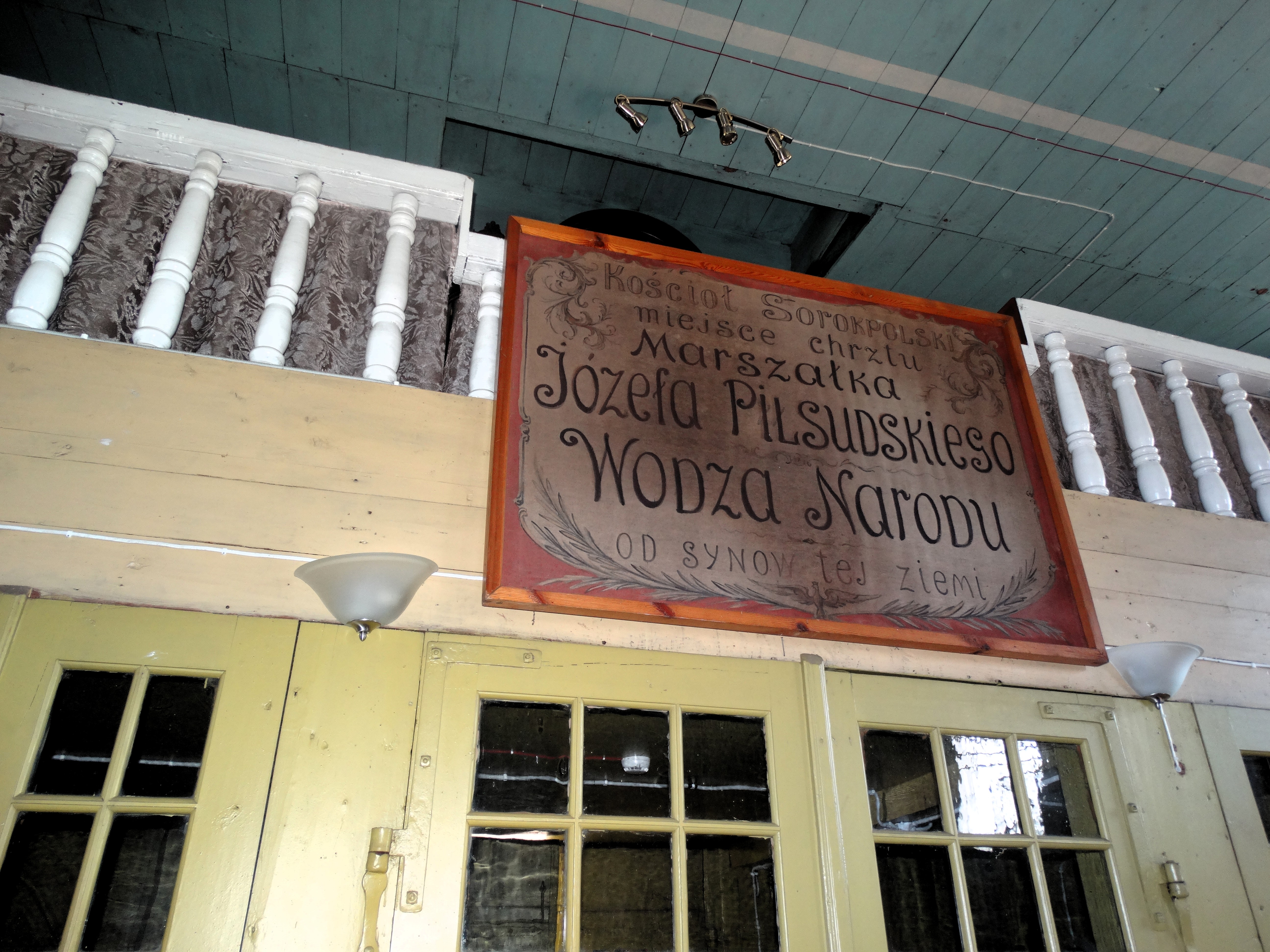 Saint Casimir church, record of Pilsudski baptizing, Pavoverė, Švenčionys District, Lithuania